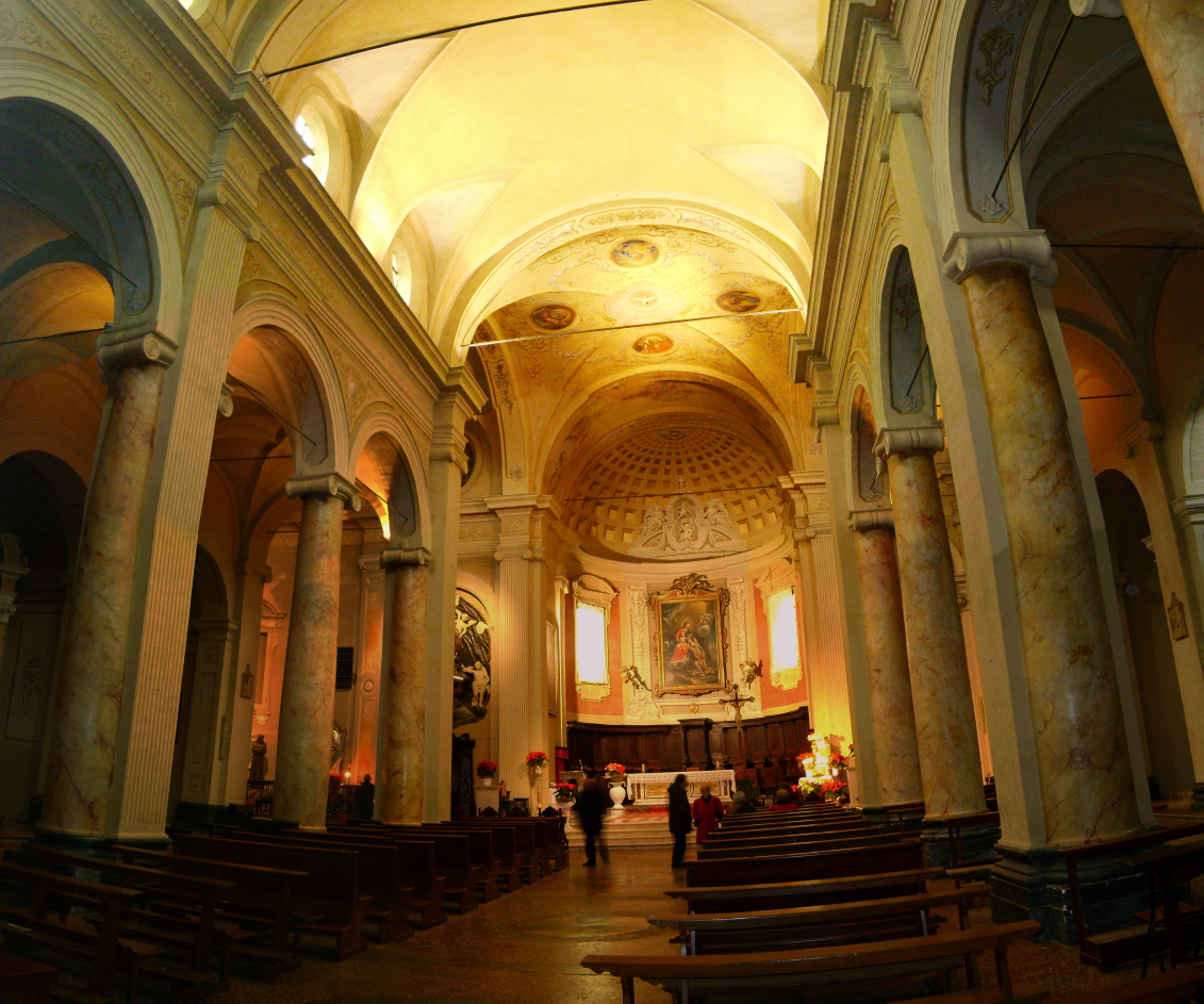 The interior of the dome of St. Catherine, Bertinoro, province of Forlì-Cesena, Emilia-Romagna